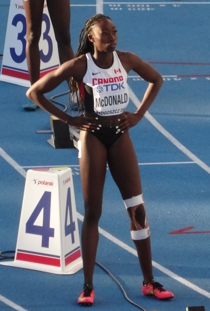 2016 IAAF World U20 Championships in Bydgoszcz, 400m women qualifications